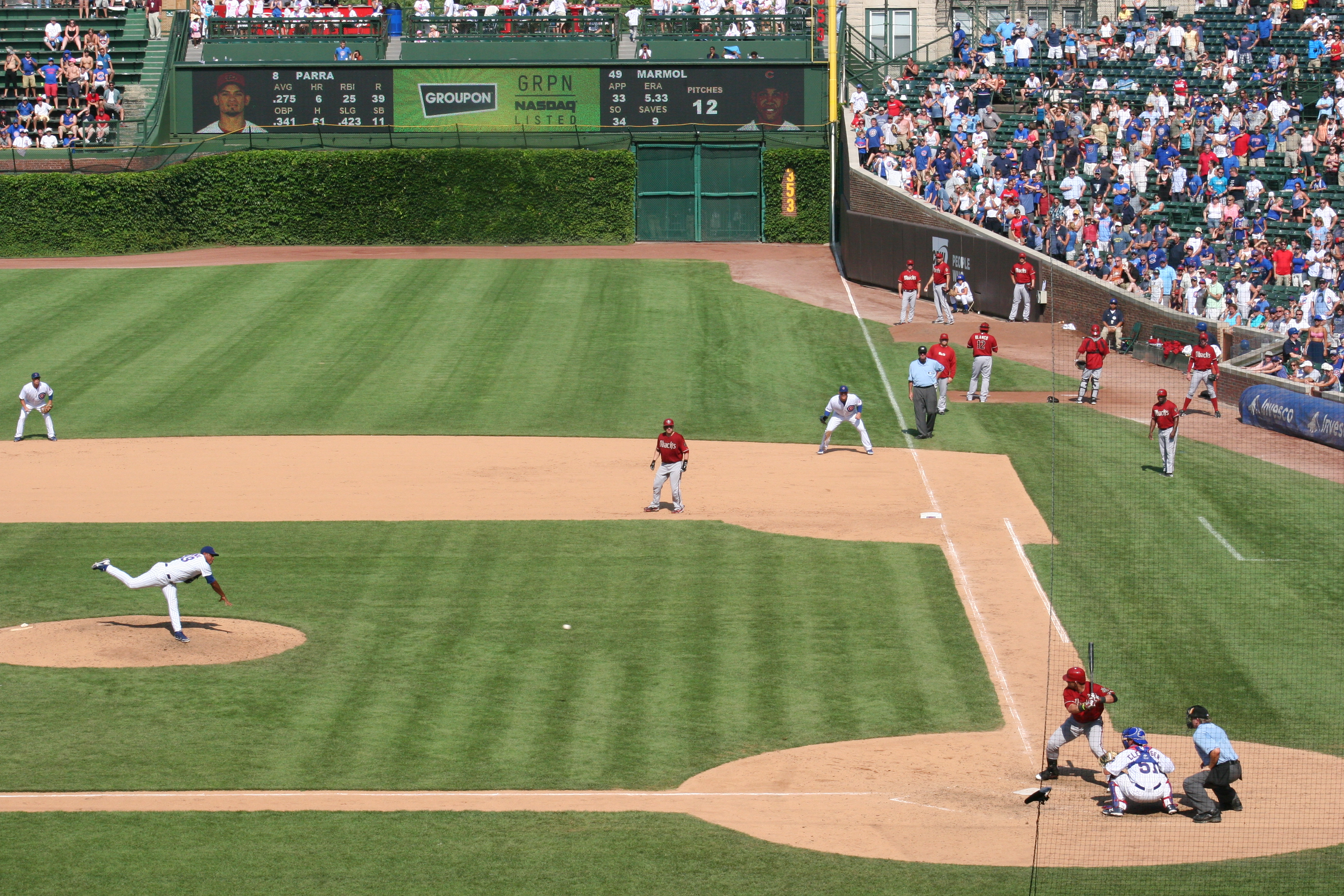 The Chicago Cubs host the Arizona Diamondbacks on July 15, 2012 at Wrigley Field in Wrigleyville, Chicago, IL